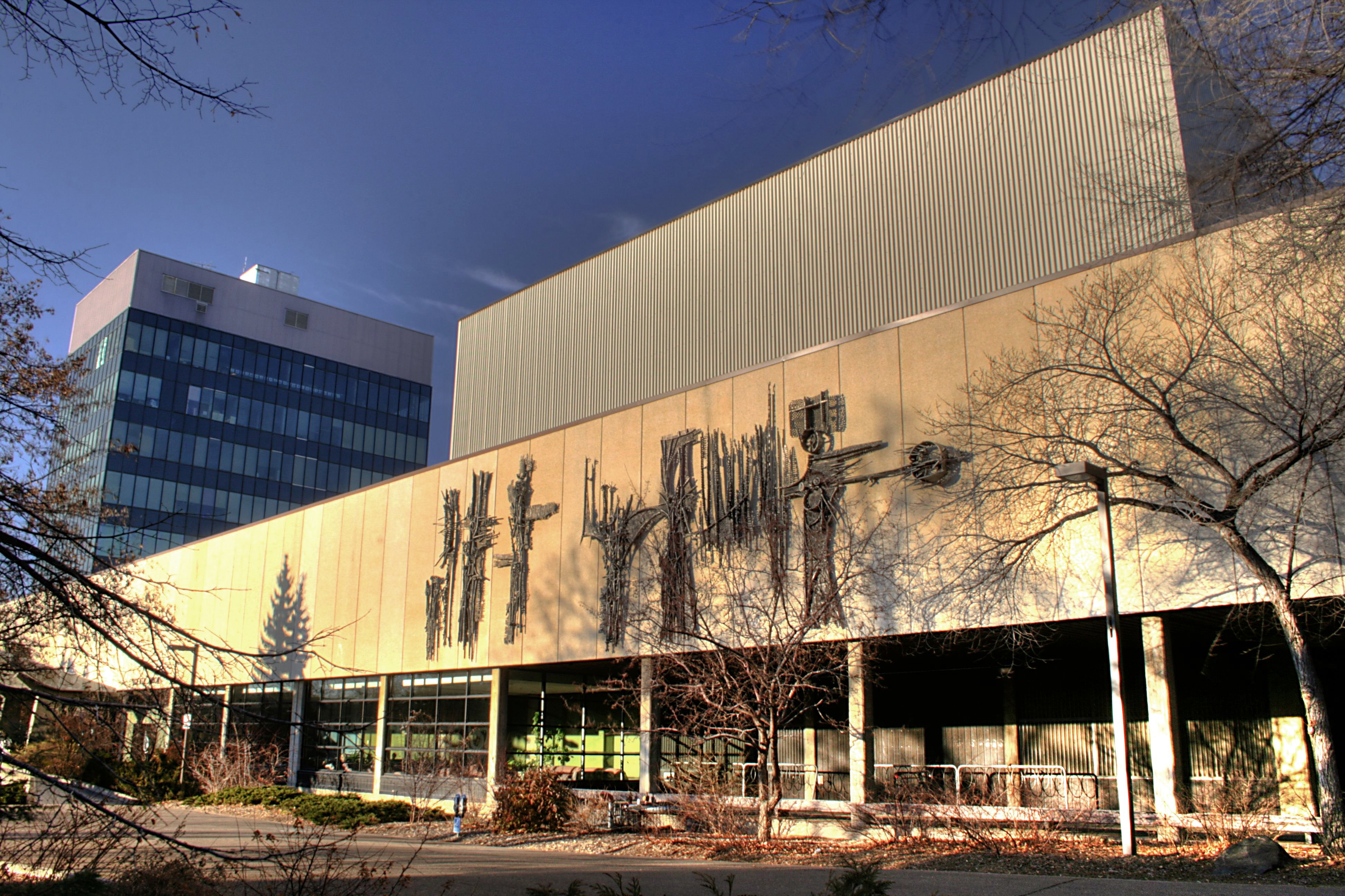 The Student's Union Building on the North Campus of the University of Alberta, Edmonton, Alberta, Canada.